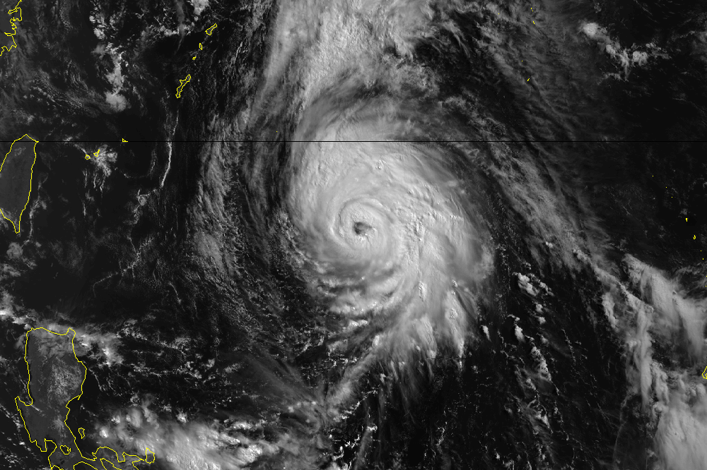 Typhoon Opal at peak strength